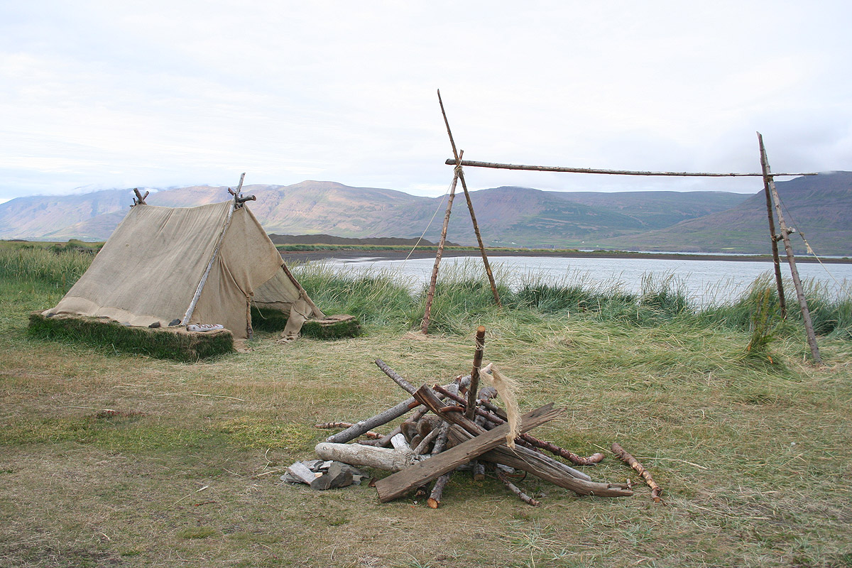 Gásir - Medieval Trading Place North Iceland